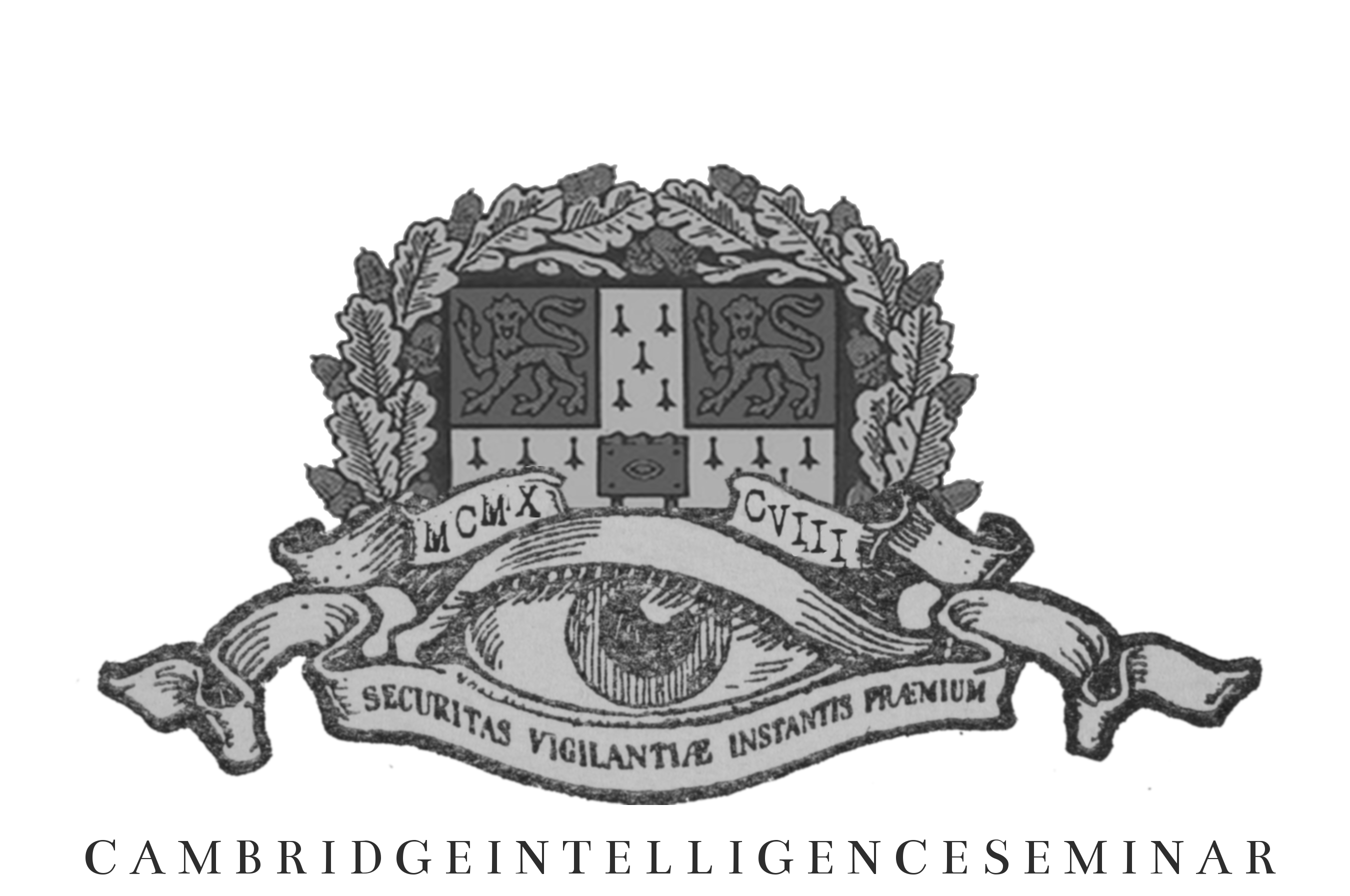 Logo of the Cambridge Intelligence Seminar, Corpus Christi College, University of Cambridge